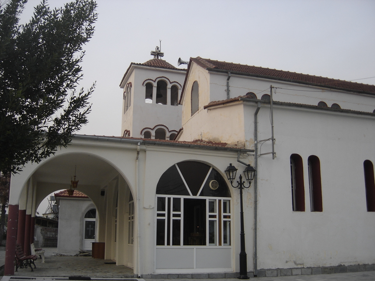 Church of Agios Stephanos in Vria, founded in 1971.